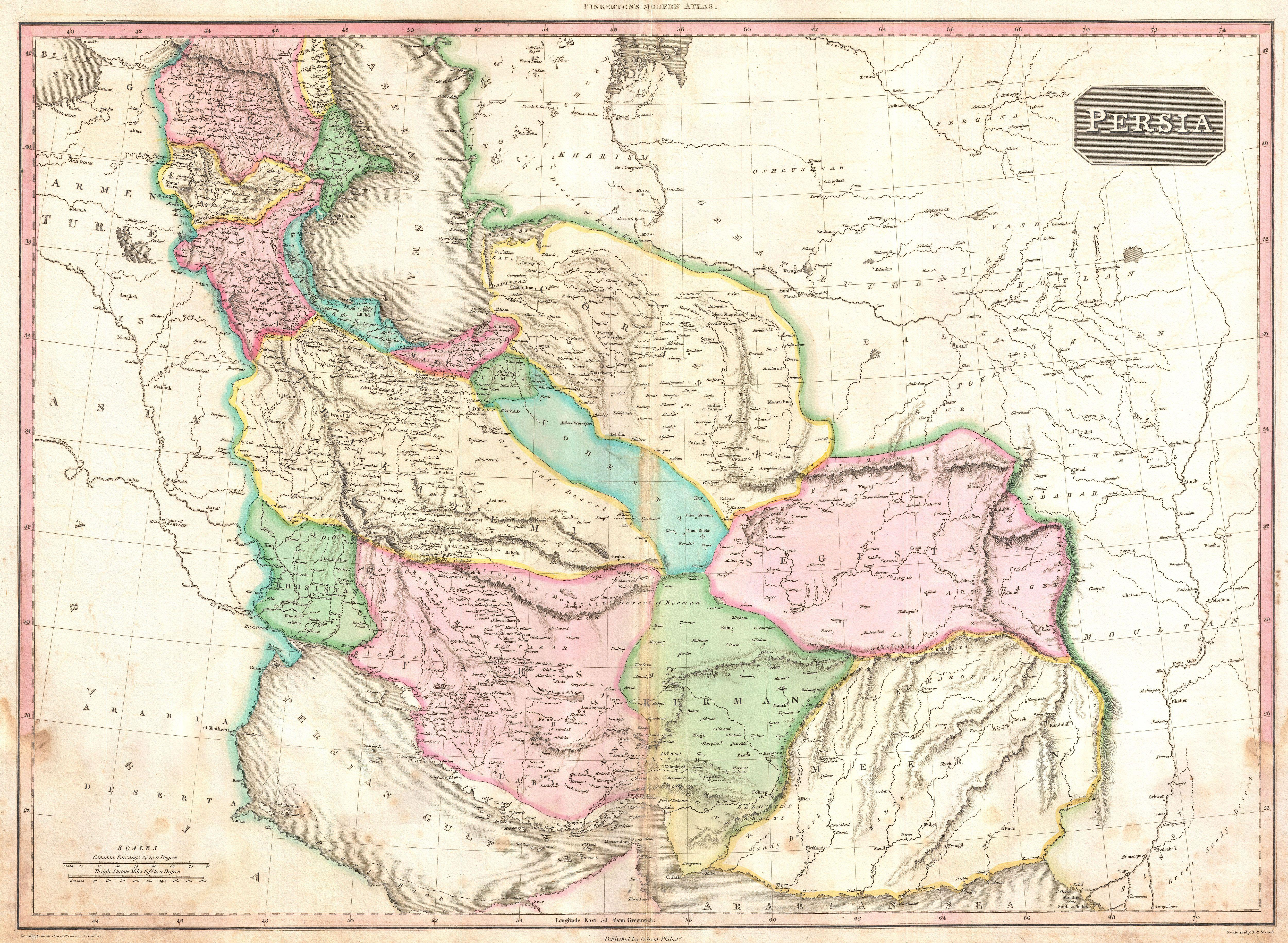 A rare and important 1818 map of Persia by John Pinkerton. Depicts from the Black Sea eastward as far as the Indus Valley, extends north to the Aral Sea and South to the Persian Gulf and the Arabian Sea. Includes the modern day countries of Iran and Afghanistan, as well as parts of adjacent Pakistan, Kuwait, Iraq, Turkey and Arabia. Notes both political and physical geographic elements, including rivers, mountains, under sea dangers, various tribal regions, cities, ruins, and canals. In particular, notes the ruins of both Babylon and Persepolis. Drawn by L. Herbert and engraved by Samuel Neele under the direction of John Pinkerton. The map comes from the scarce American edition of Pinkerton’s Modern Atlas, published by Thomas Dobson & Co. of Philadelphia in 1818.